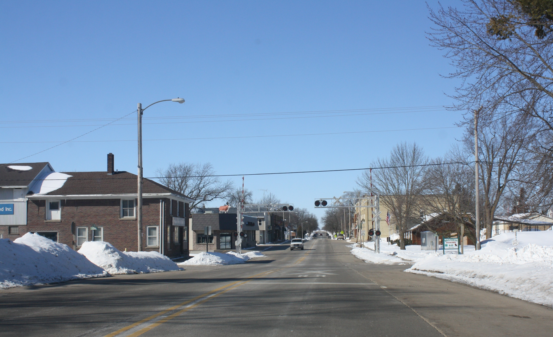 Looking west in downtown Brandon, Wisconsin on Wisconsin Highway 49.